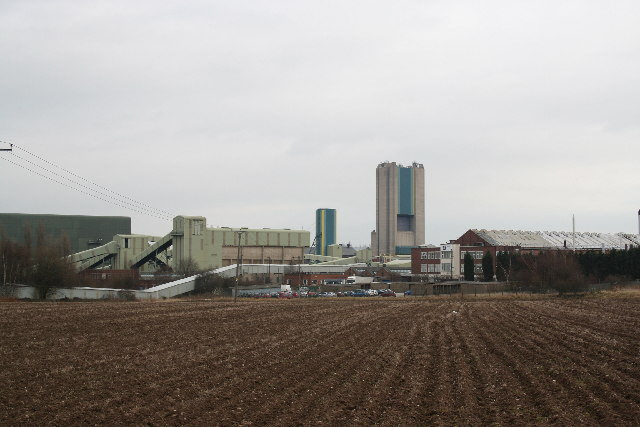 Harworth Colliery. The first shaft was sunk in 1919 and Harworth pit has produced millions of tons of top quality coal ever since. The Flying Scotsman was burning Harworth Coal when she covered the 392 miles from London to Edinburgh in 7 hours, 27 minutes in 1932.